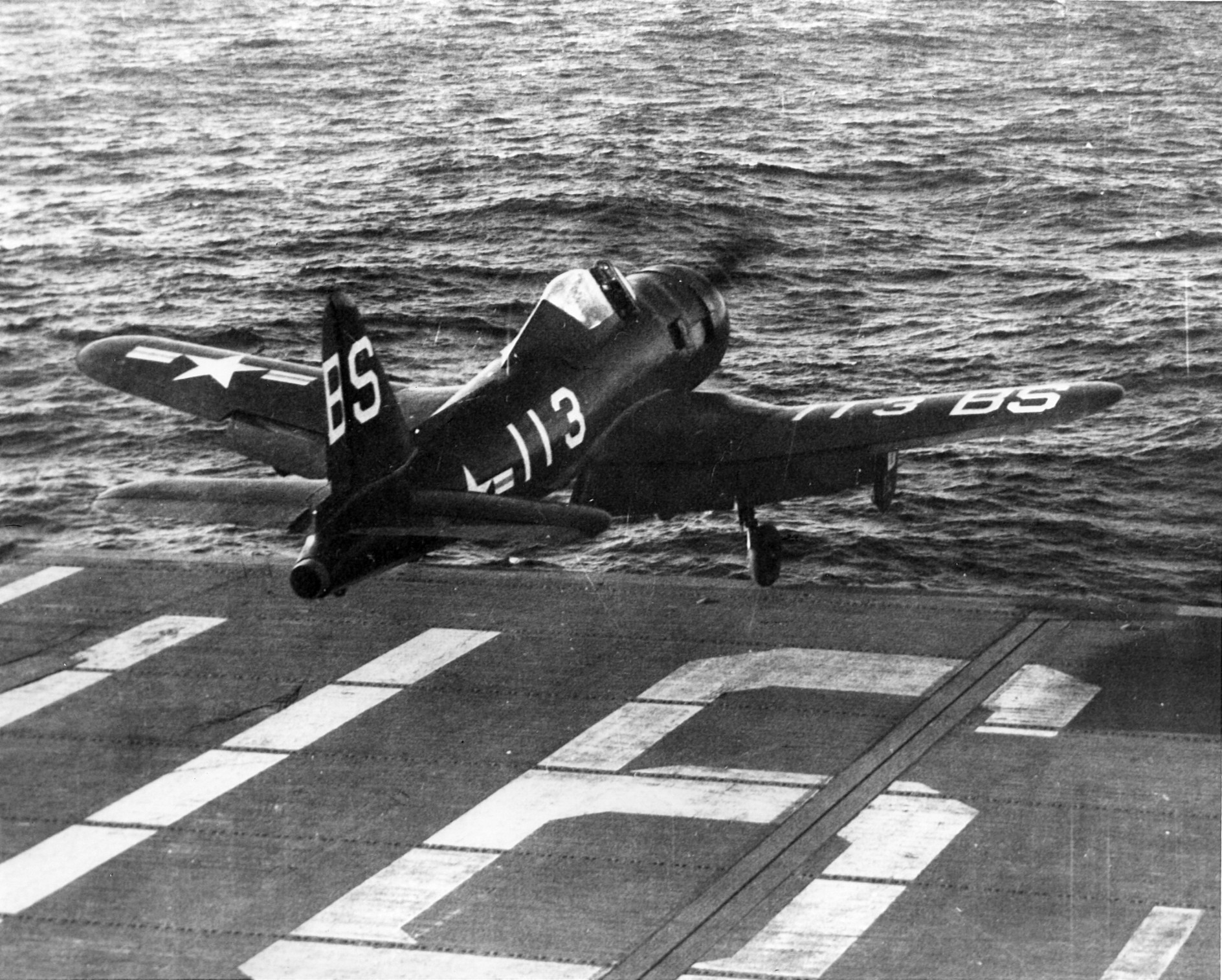 A U.S. Navy Ryan FR-1 Fireball launches from the flight deck of the escort carrier USS Badoeng Strait (CVE-116), March-June 1947.